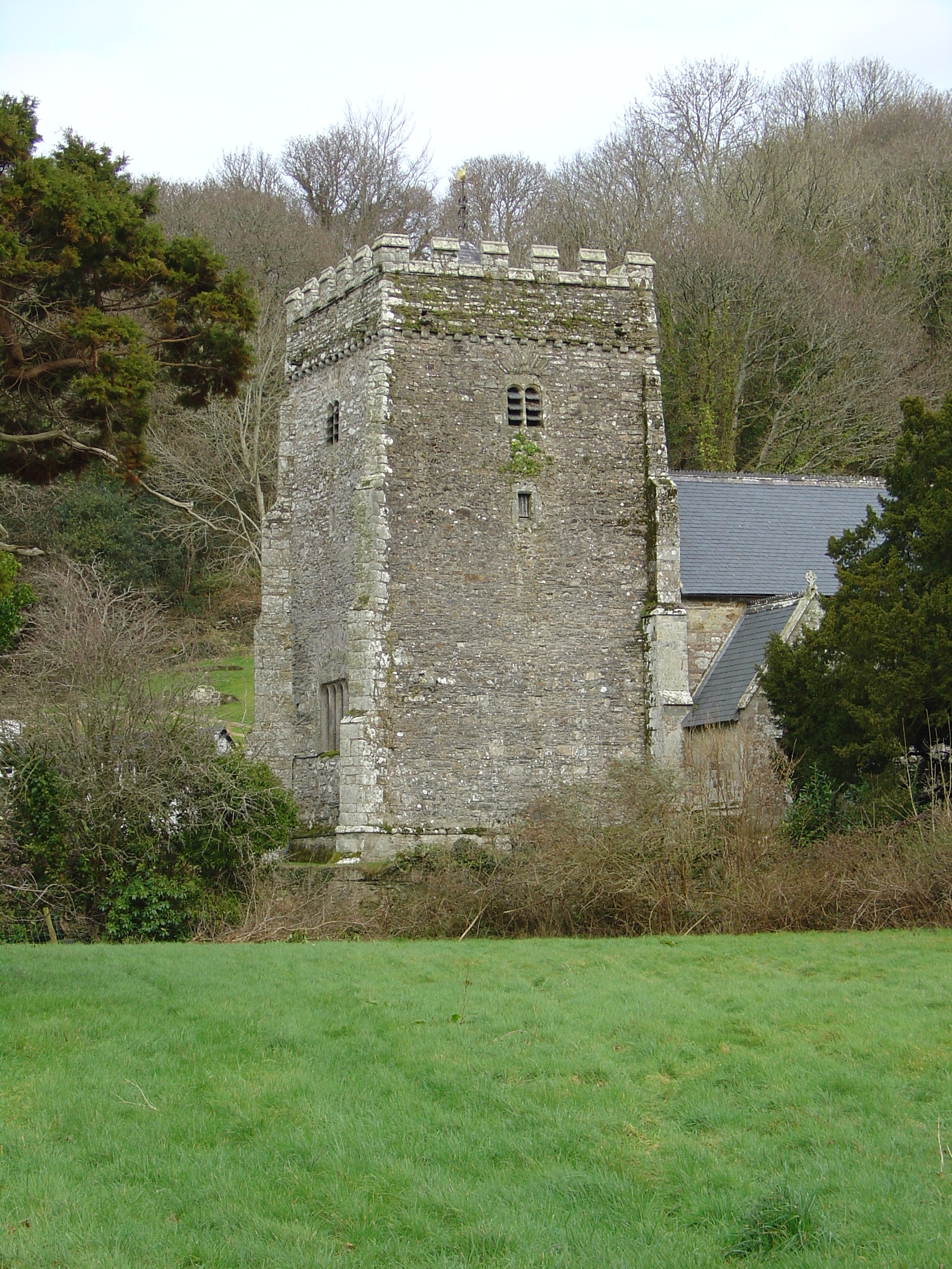 View of St Brynach's church, Nevern, Pembrokeshire from the southwest